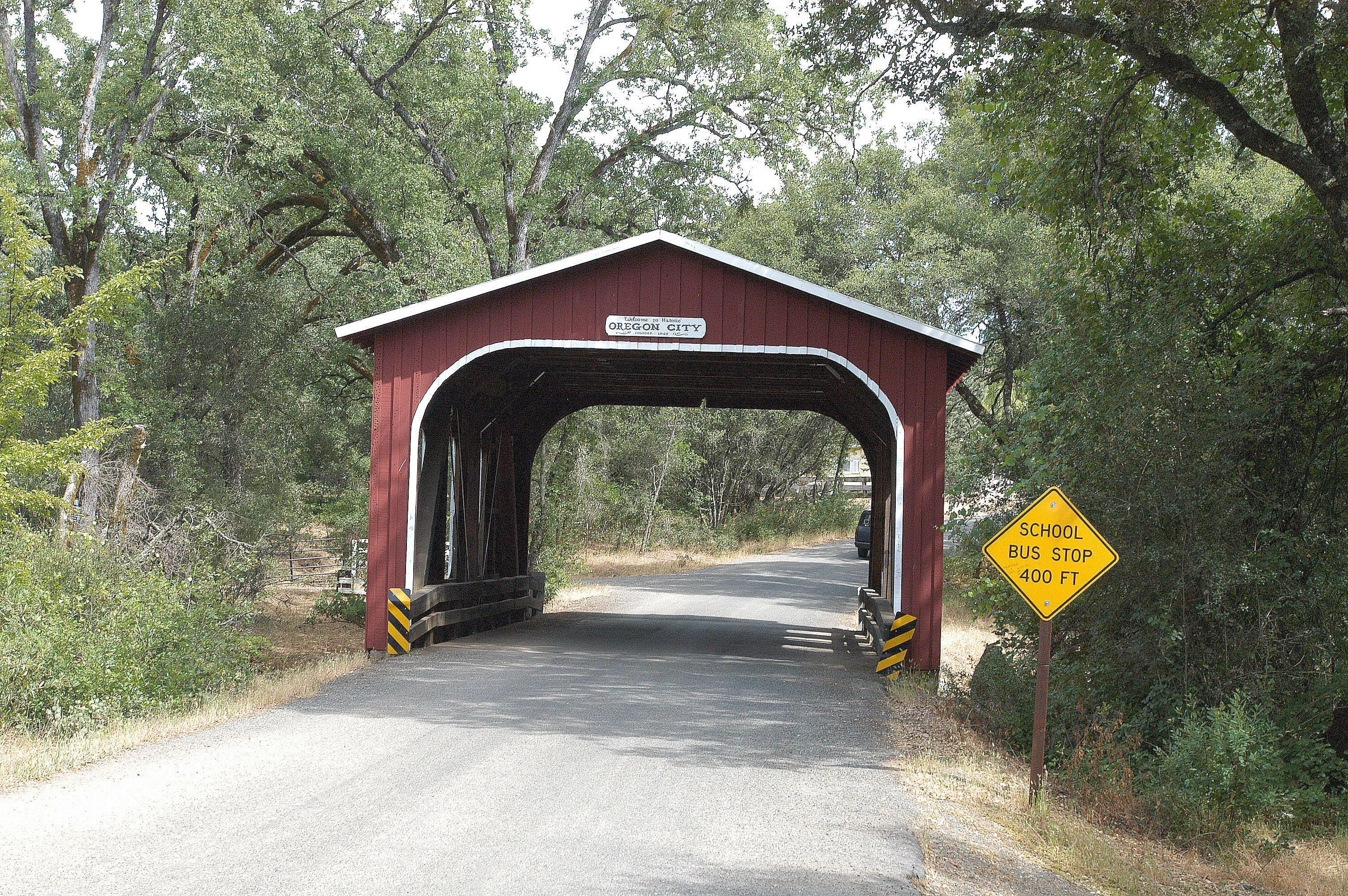 BUTTE COUNTY CALIFORNIA COVERED BRIDGES; CASTLEBERRY COVERED BRIDGE NEAR CHEROKEE; 1984 WARREN CONSTRUCTION; 1 SPAN 35 FEET OVER OREGON CREEK